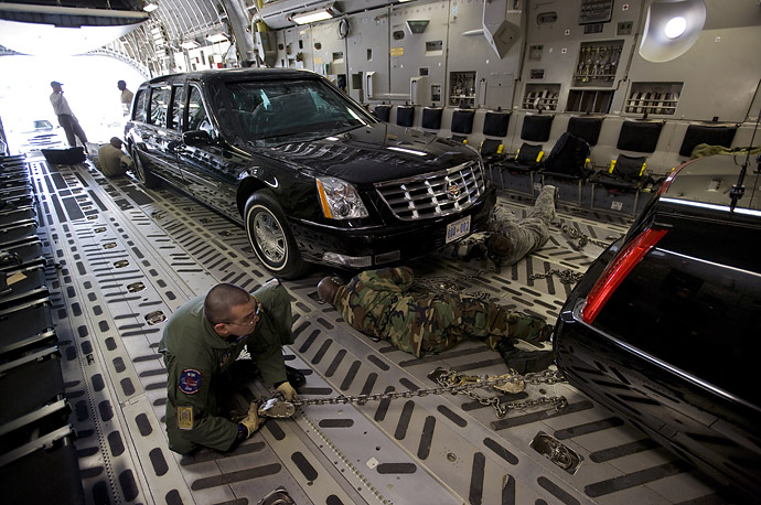 The President's Limousine being unloaded from a C-17 Globemaster III before he arrives in Air Force One.